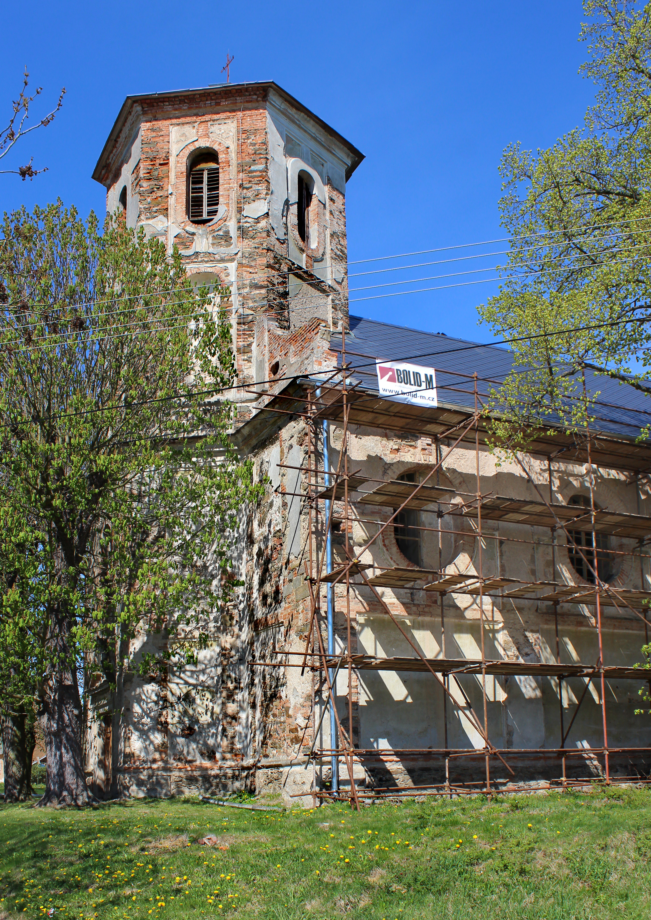 St. Mary's Church in Záchlumí village, Czech Republic